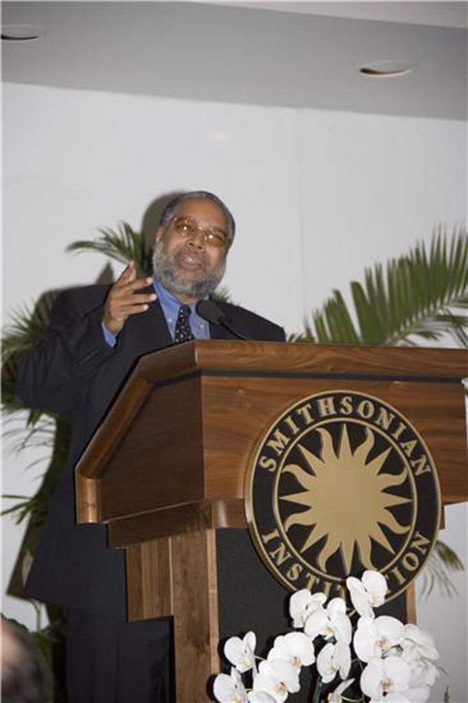 2006, January 30, 2006 Lonnie G. Bunch, III, director of the National Museum of African American History and Culture, speaks at a news conference to announce selection of a site for the new Museum